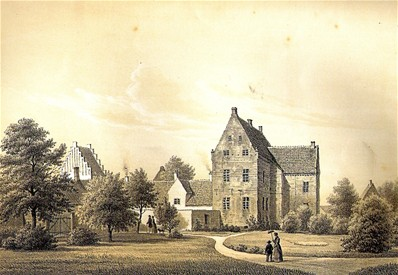 Illustration from Prospekter af danske Herregårde udgivne published by kandscape painter F. Richardt and professor C. A. Becker. Kjøbenhavn 1855.